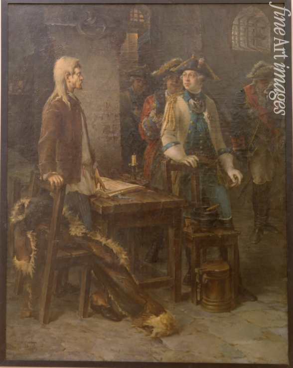 Emperor Peter III visiting Ivan VI Antonovich in the Shlisselburg Fortress in 1762